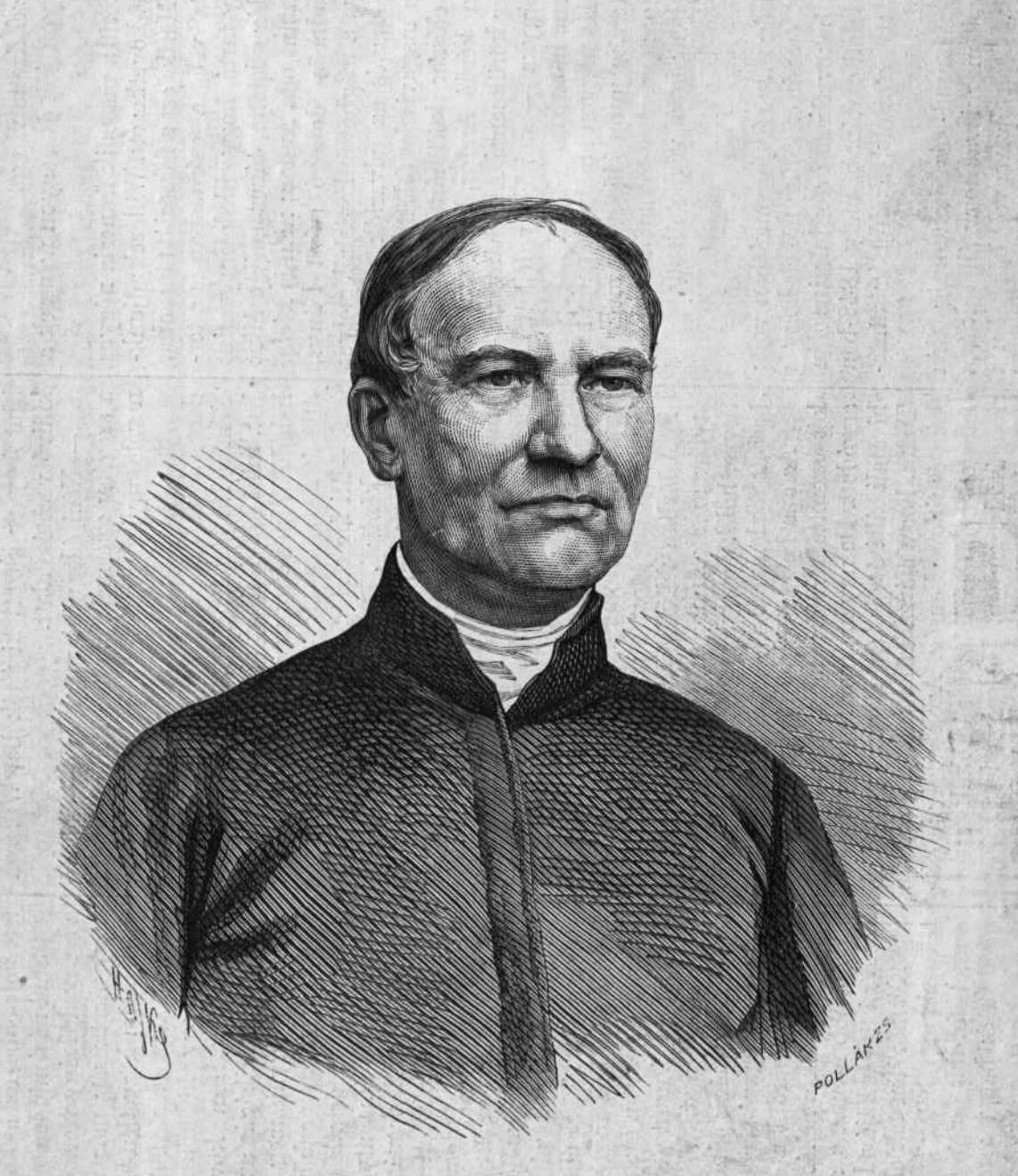 Imre Szepesi